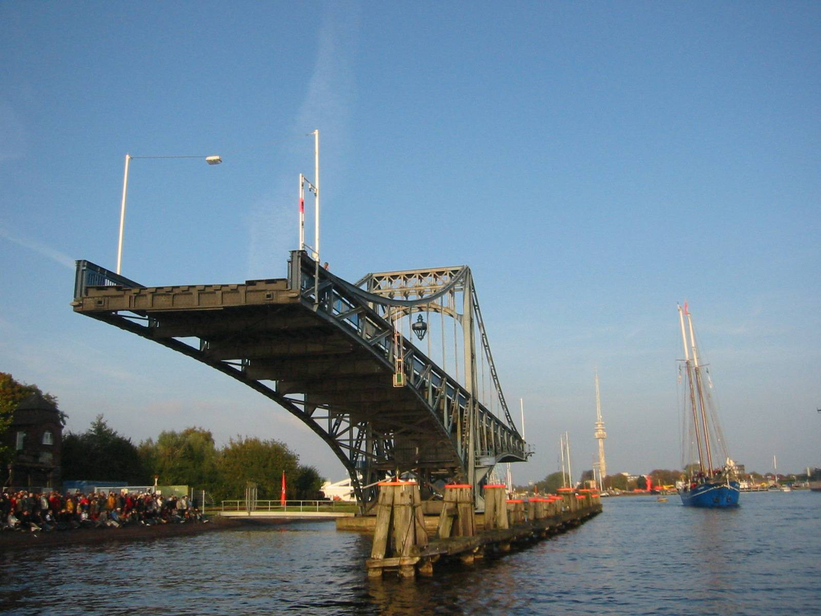 Photo of Kaiser Wilhelm swing bridge, Wilhelmshaven, Germany